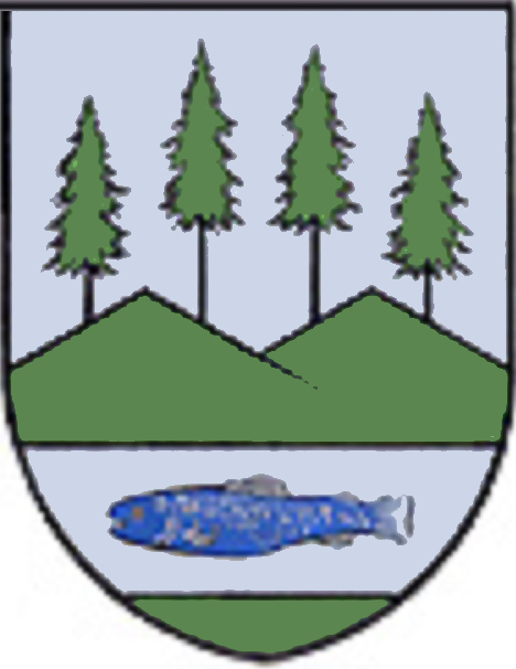 Coat of arms of Fischbach, Styria, Austria, based on a graphicly very modest JPG-file of the municitality site (auch AUT Fischbach COA.jpg), at least graphicly smoothed